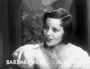 From the 1933 film Oliver Twist, a screenshot of Barbara Kent. Original uploader got it from